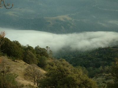 View across Mount Diablo State Park, California Photograph taken by Stephen Lea, 10th January 2004. This reduced image placed in the public domain under GNU licence conditions.